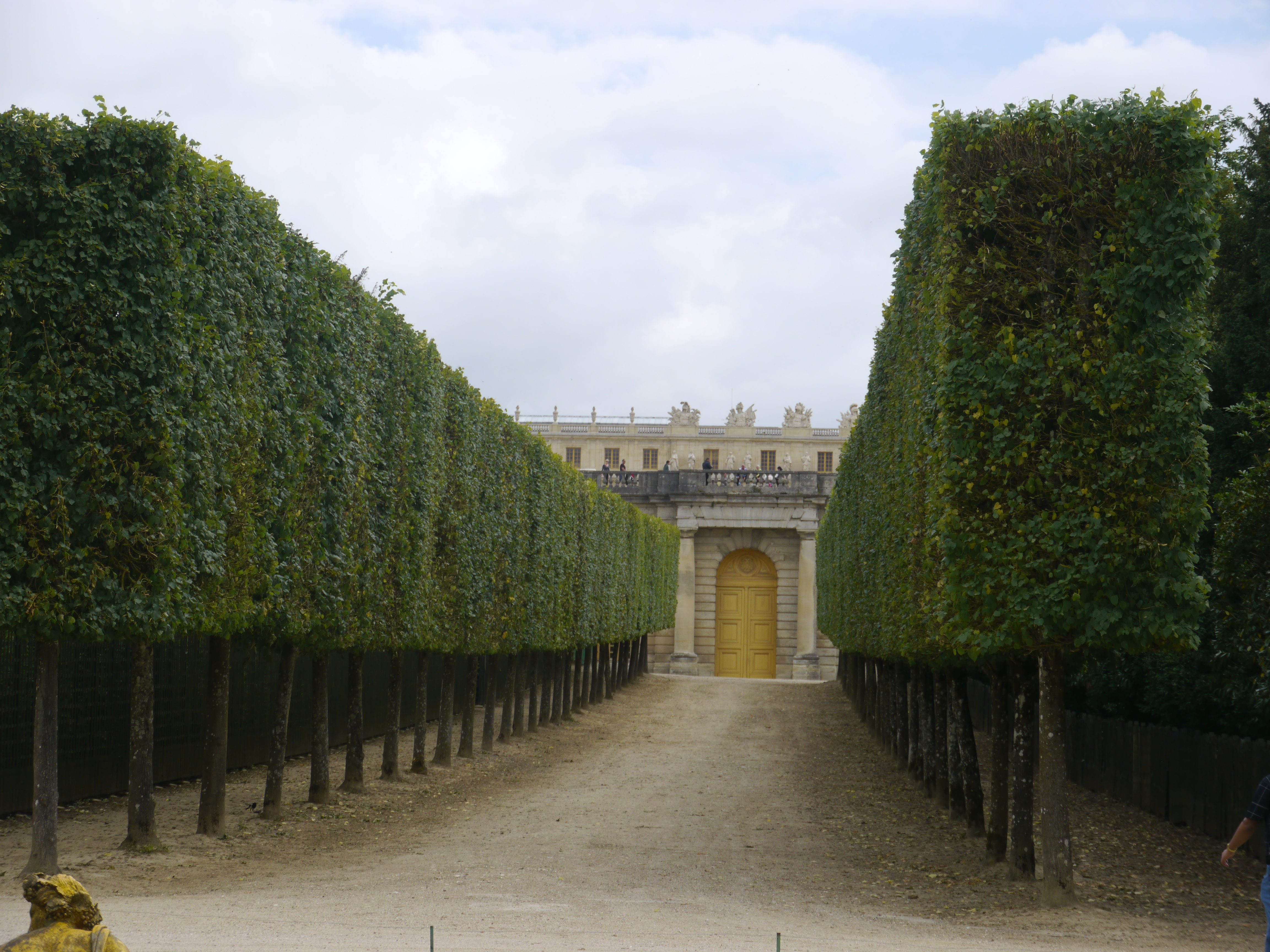 Photograph taken at the Park of the 'Château de Versailles' in France.